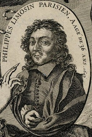 Portrait of Philippe Limosin by François Chauveau, 1647.